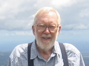 Permission granted by copyright holder J. Hillis Miller by e-mail to User:Zenohockey.